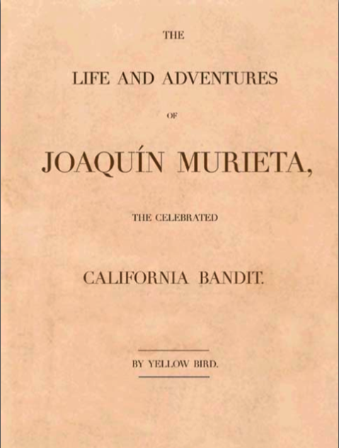 Joaquín Murieta cover page